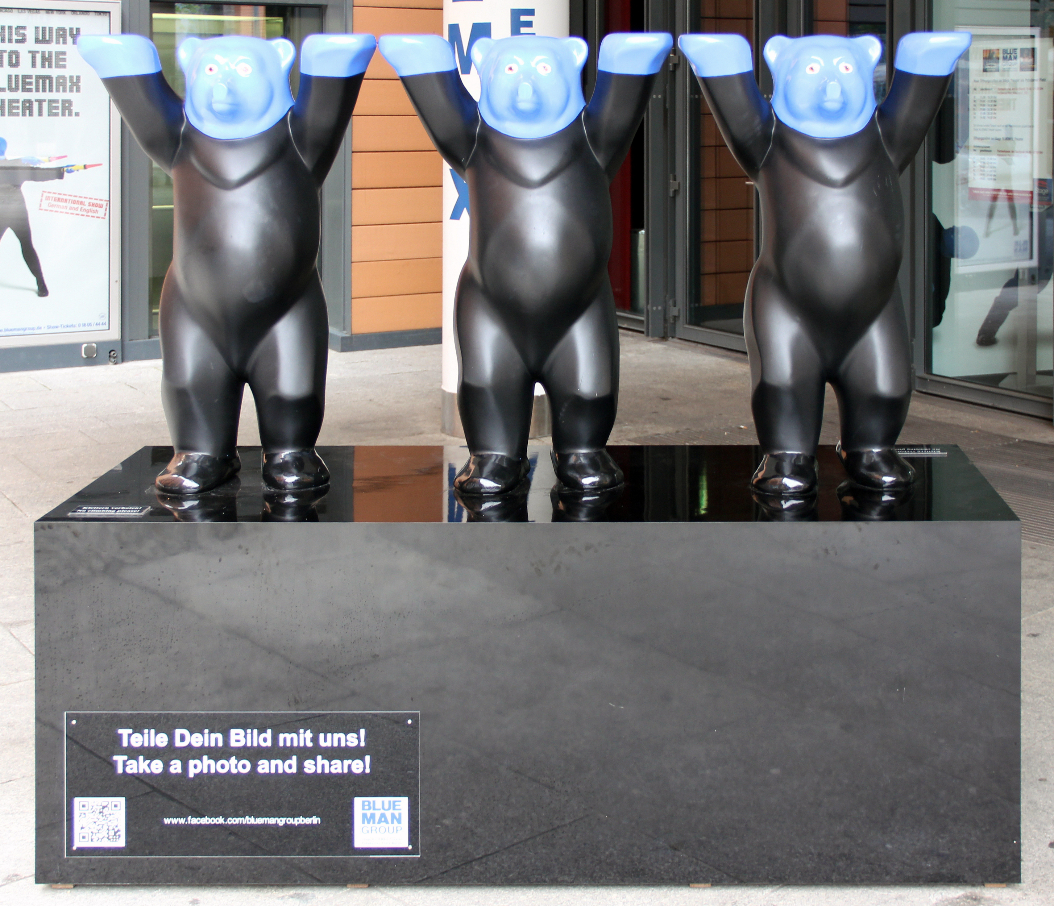 Sculpture, Buddy Bär Blue Man Group, Marlene-Dietrich-Platz 4, Berlin-Tiergarten, Germany